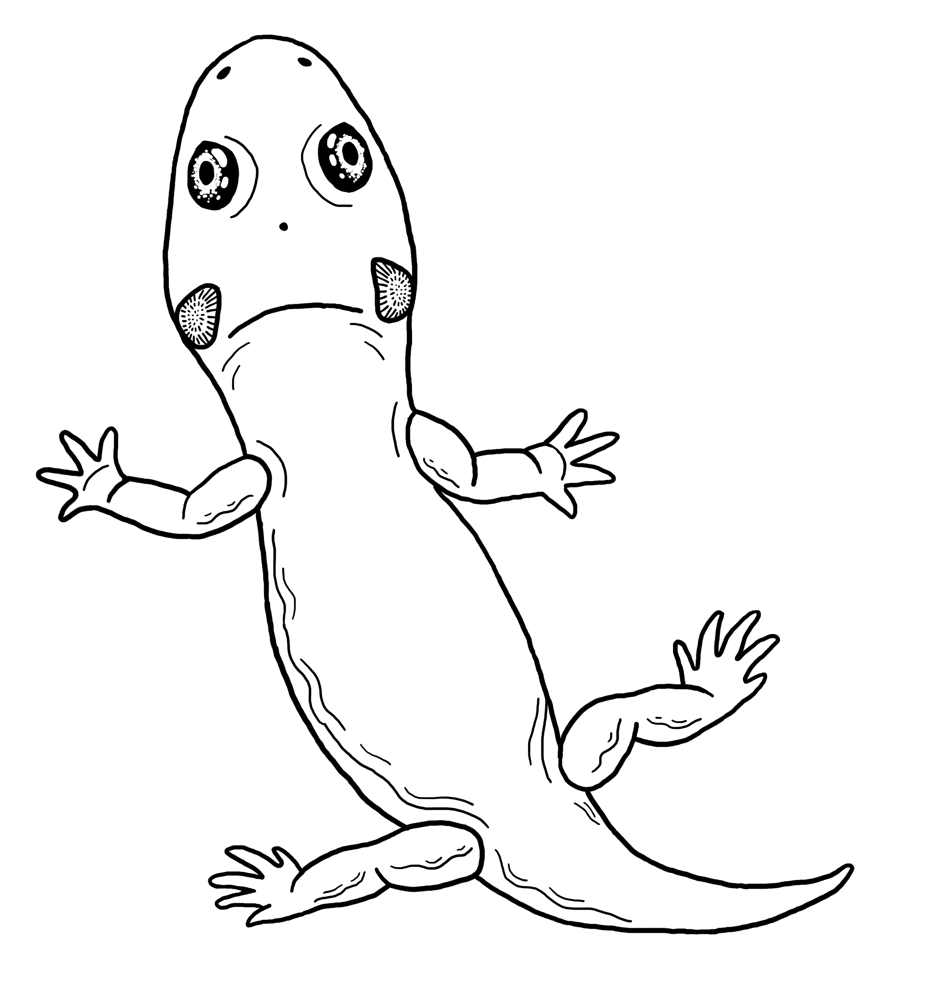 Life restoration of Rubeostratilia texensis. Based on Figure 1 of "A new amphibamid (Temnospondyli: Dissorophoidea) from the Early Permian of Texas" by Hélène Bourget and Jason S. Anderson (Journal of Vertebrate Paleontology 31(1): 32-49).